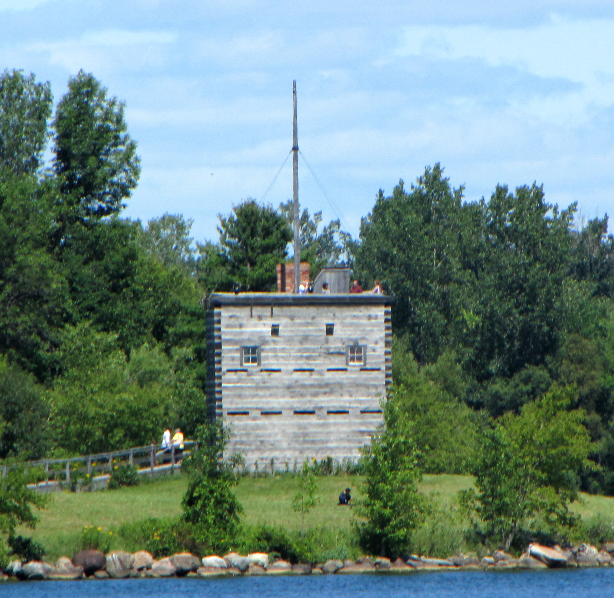 Telegraph Signal Tower, Upper Canada Village, Ontario